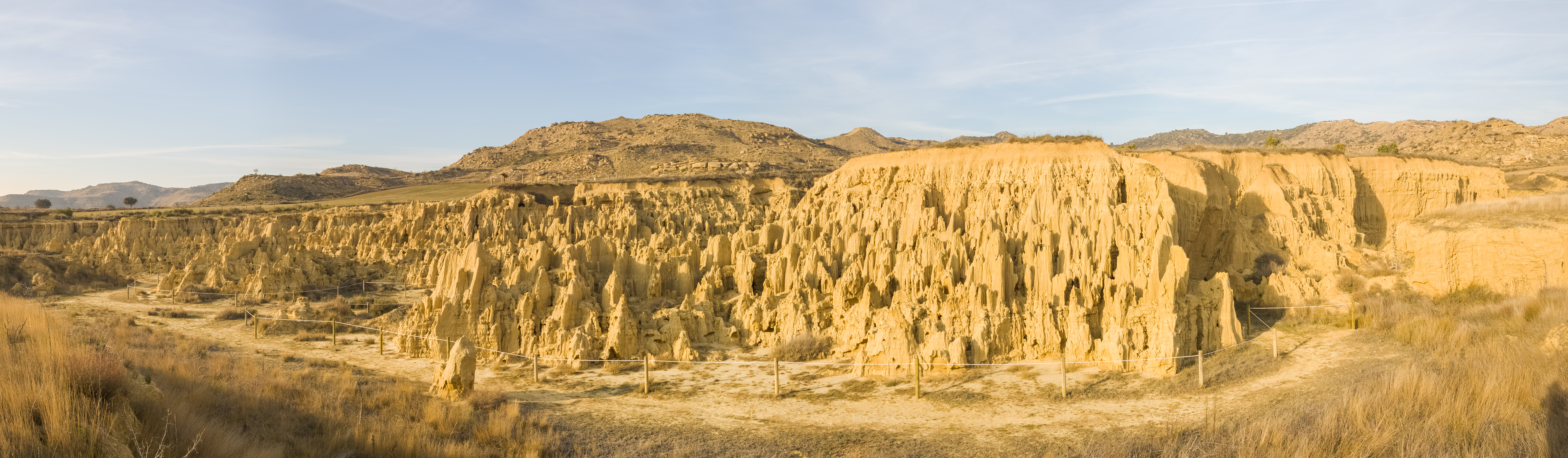 Aguarales de Valpalmas, Zaragoza, Spain